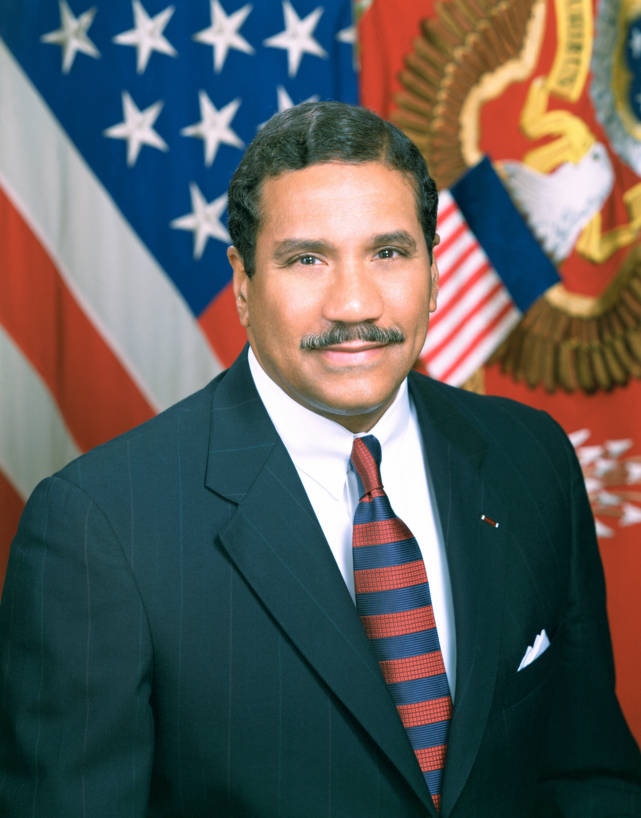 Togo West, Secretary of the Army